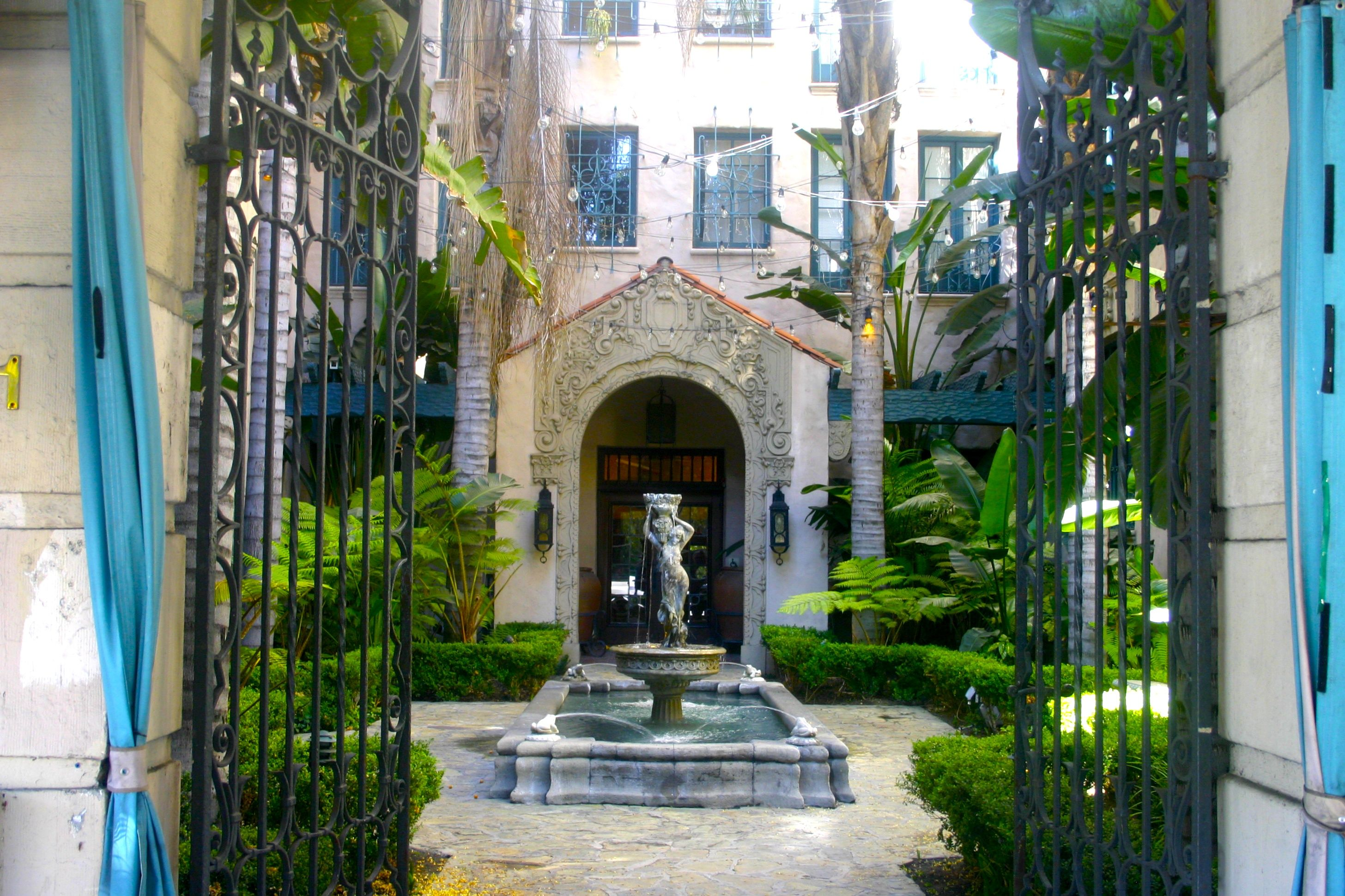 Los Altos Apartments, 4121 Wilshire Blvd. Mid-City